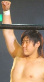 Japanese professional wrestler,Hideyoshi Kamitani. May 5 2015, BJW Yokohama Cultural Gymnasium.